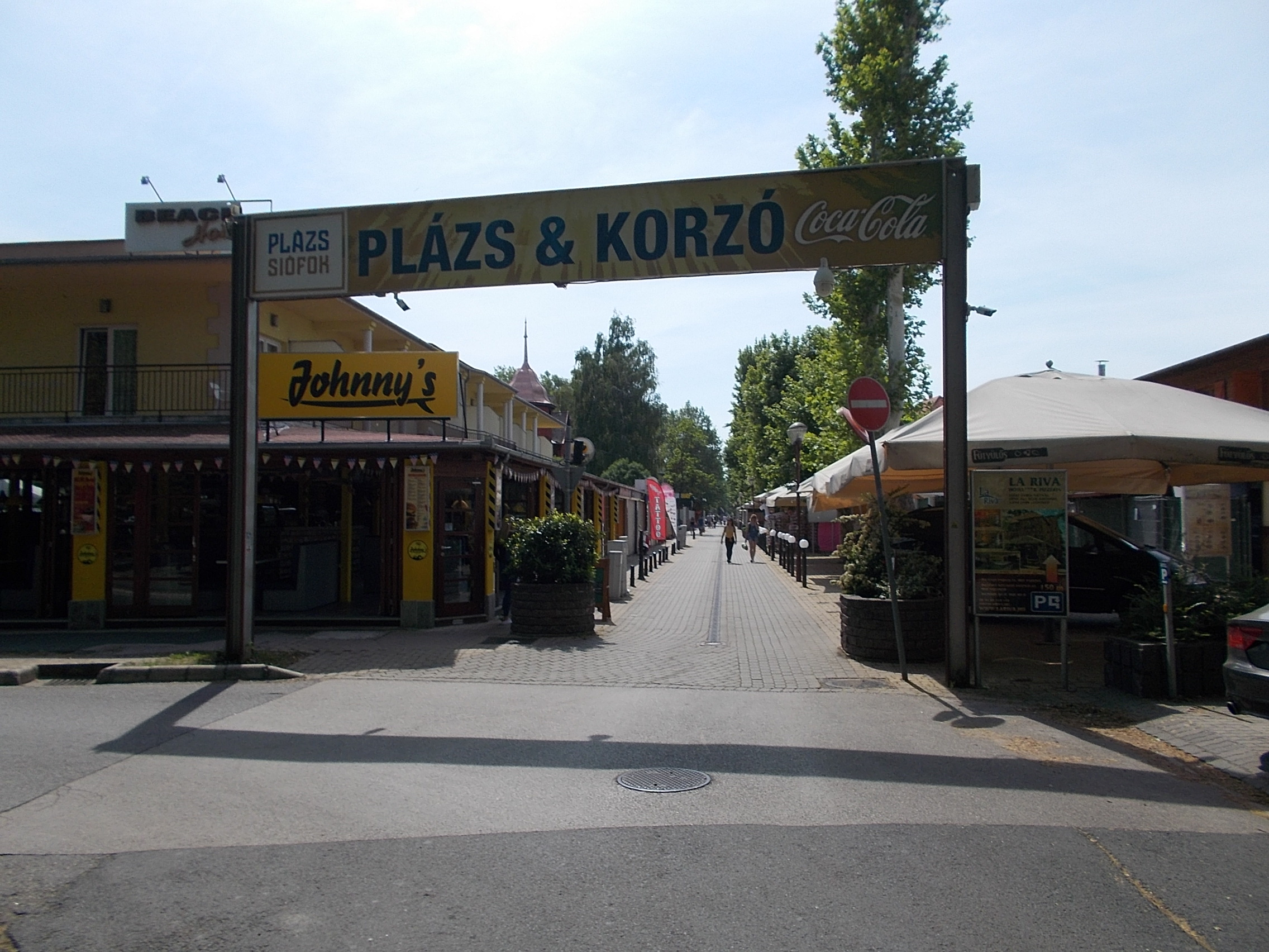 Plázs (~Plage) Siófok, west gate. Beach Hotel. - 8 Petőfi sétány, Siófok, Somogy County, Hungary.